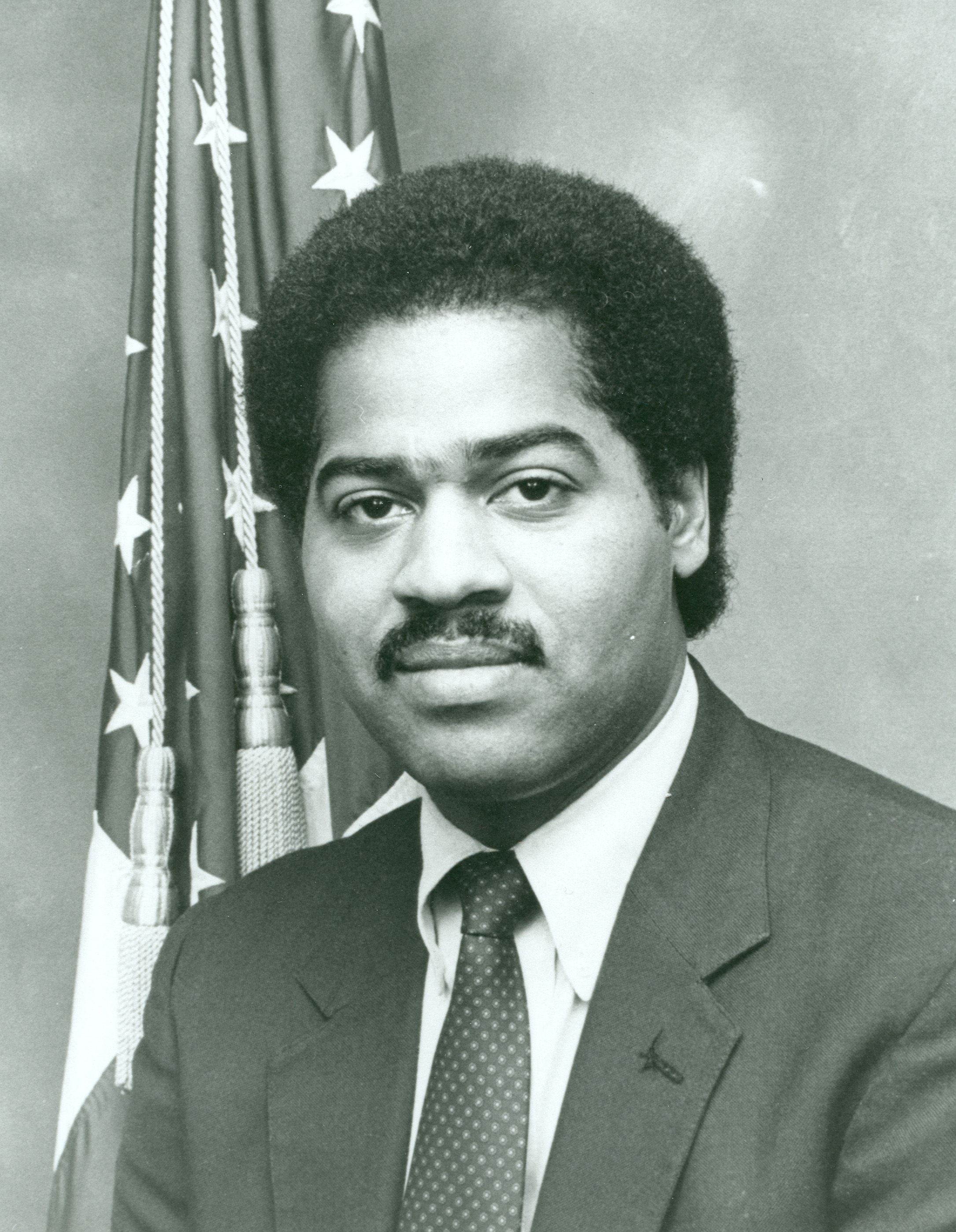 Alan Wheat, member of the United States House of Representatives.